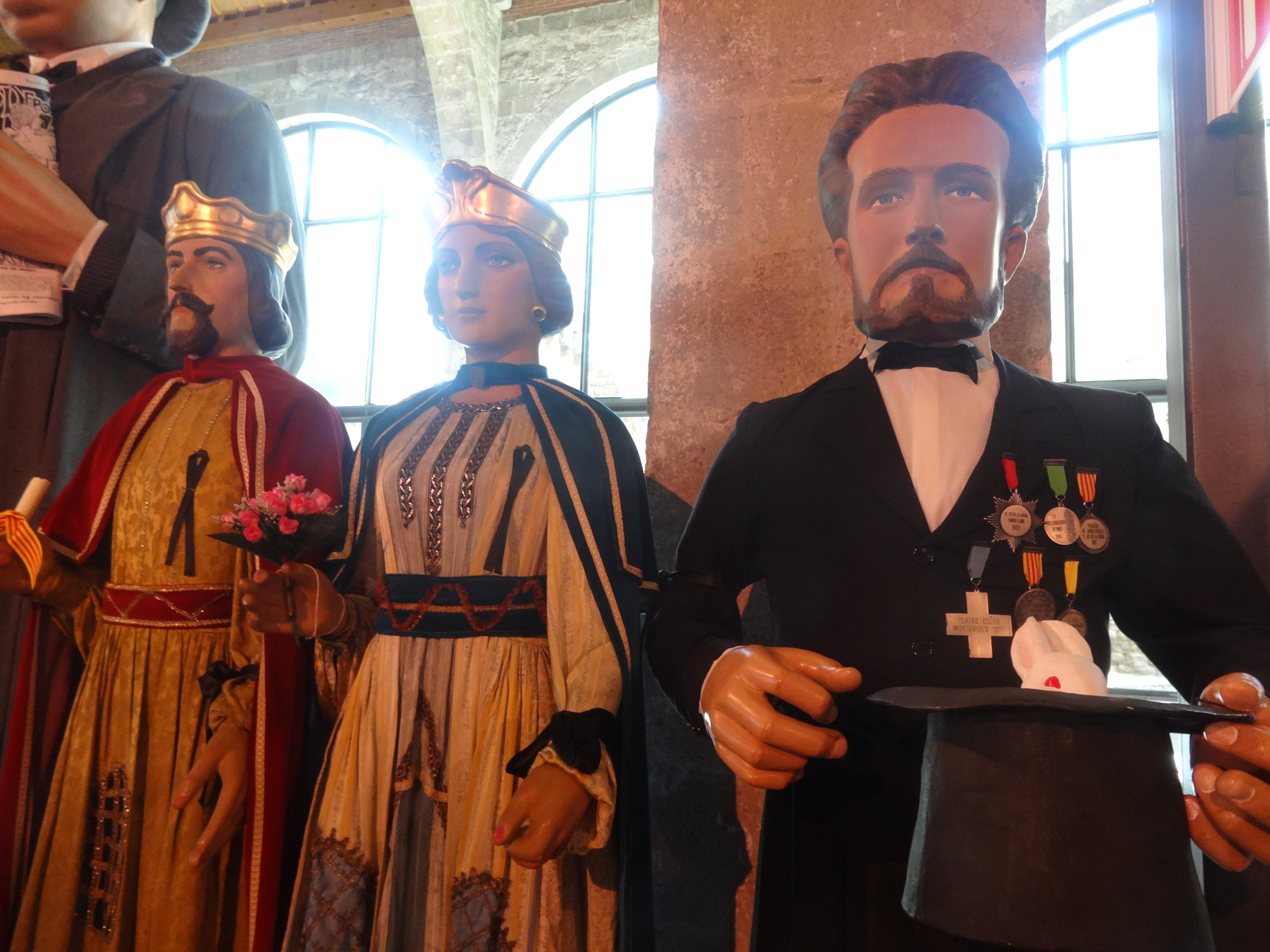 Exhibition of Giants at the Museu Marítim, Barcelona, 2013.